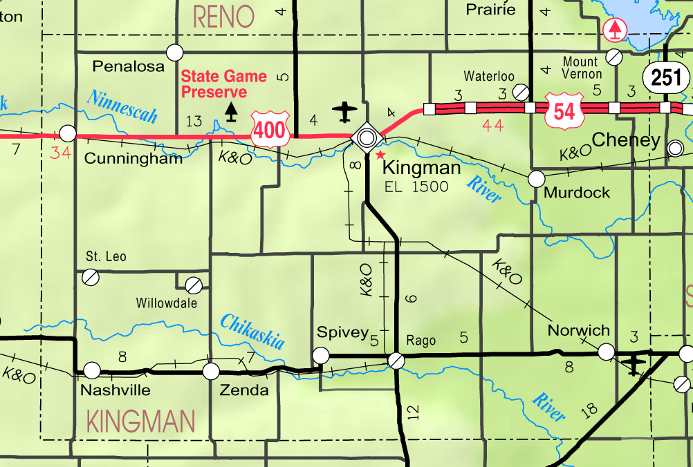 This map of Kingman County, Kansas, USA, is copied at a resolution of 300 pixels/inch from the original PDF file.